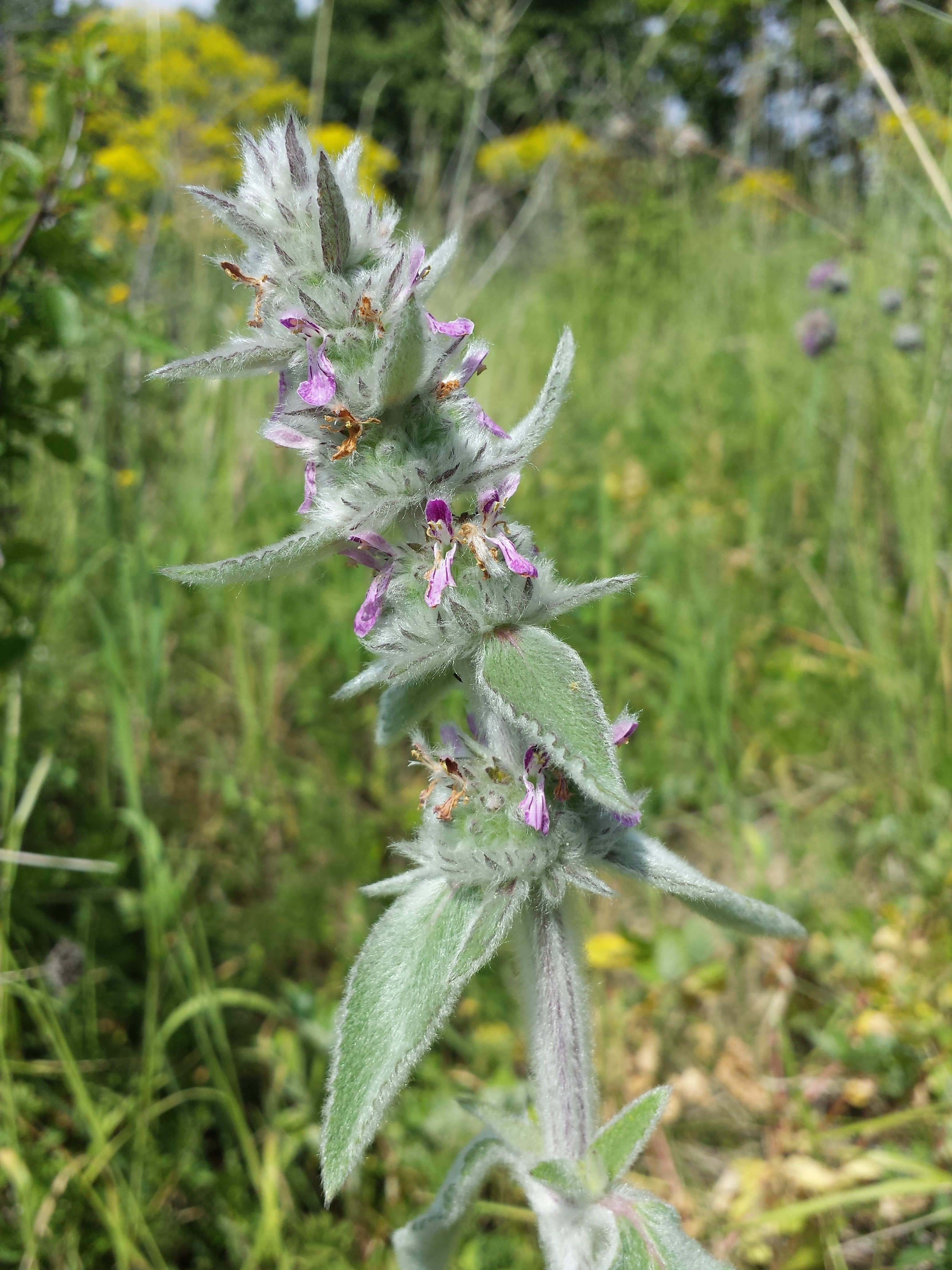 Inflorescence Taxonym: Stachys germanica (subsp. germanica) ss Fischer et al. EfÖLS 2008 ISBN 978-3-85474-187-9 Location: nearby Würfelberg near Bergau, district Hollabrunn, Lower Austria - ca. 275 m a.s.l. Habitat: meadows